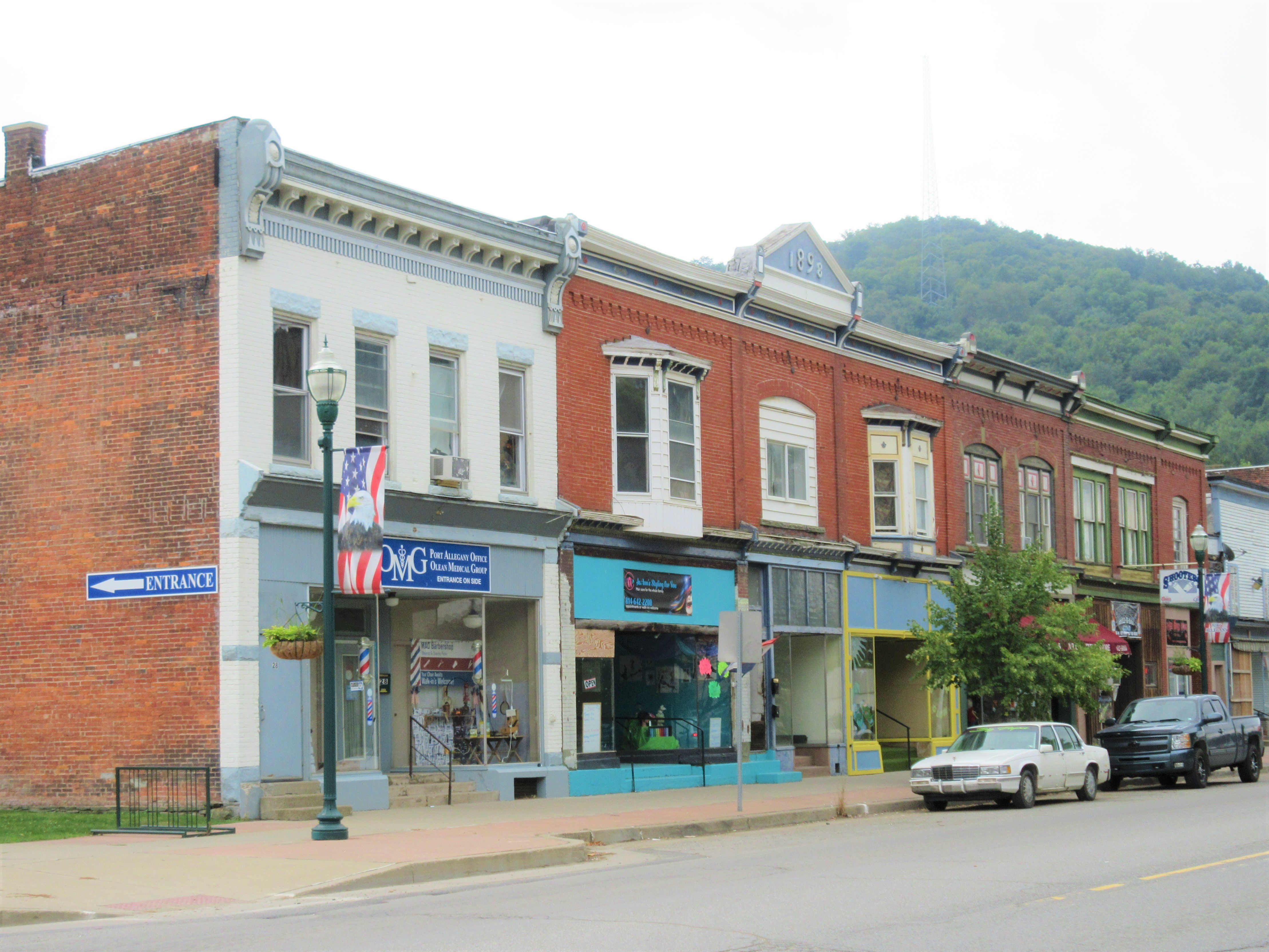 Port Allegany, Pennsylvania